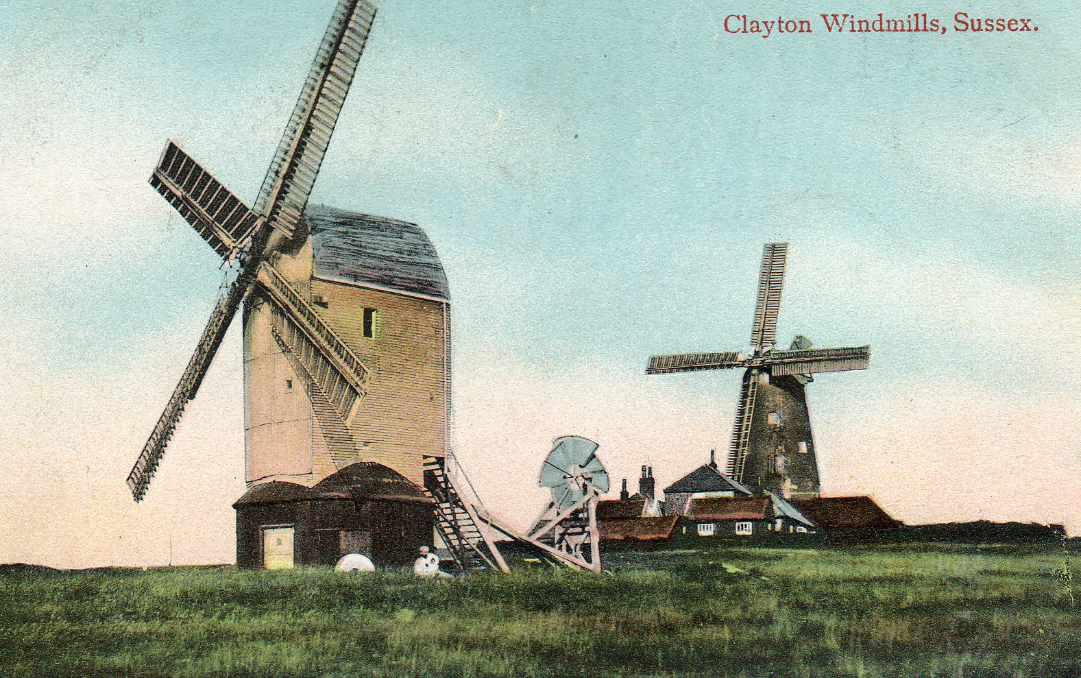 Jack and Jill Mills, Clayton from an old postcard. Jack stopped working in 1908